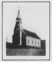 Church for miners constructed by CF&I in Primero, Colorado in 1914 at cost of $6,600 to the company. From Edwin R. A. Seligman's essay "Colorado's Civil War and Its Lessons," originally published in Frank Leslie's Weekly on 5 November 1914